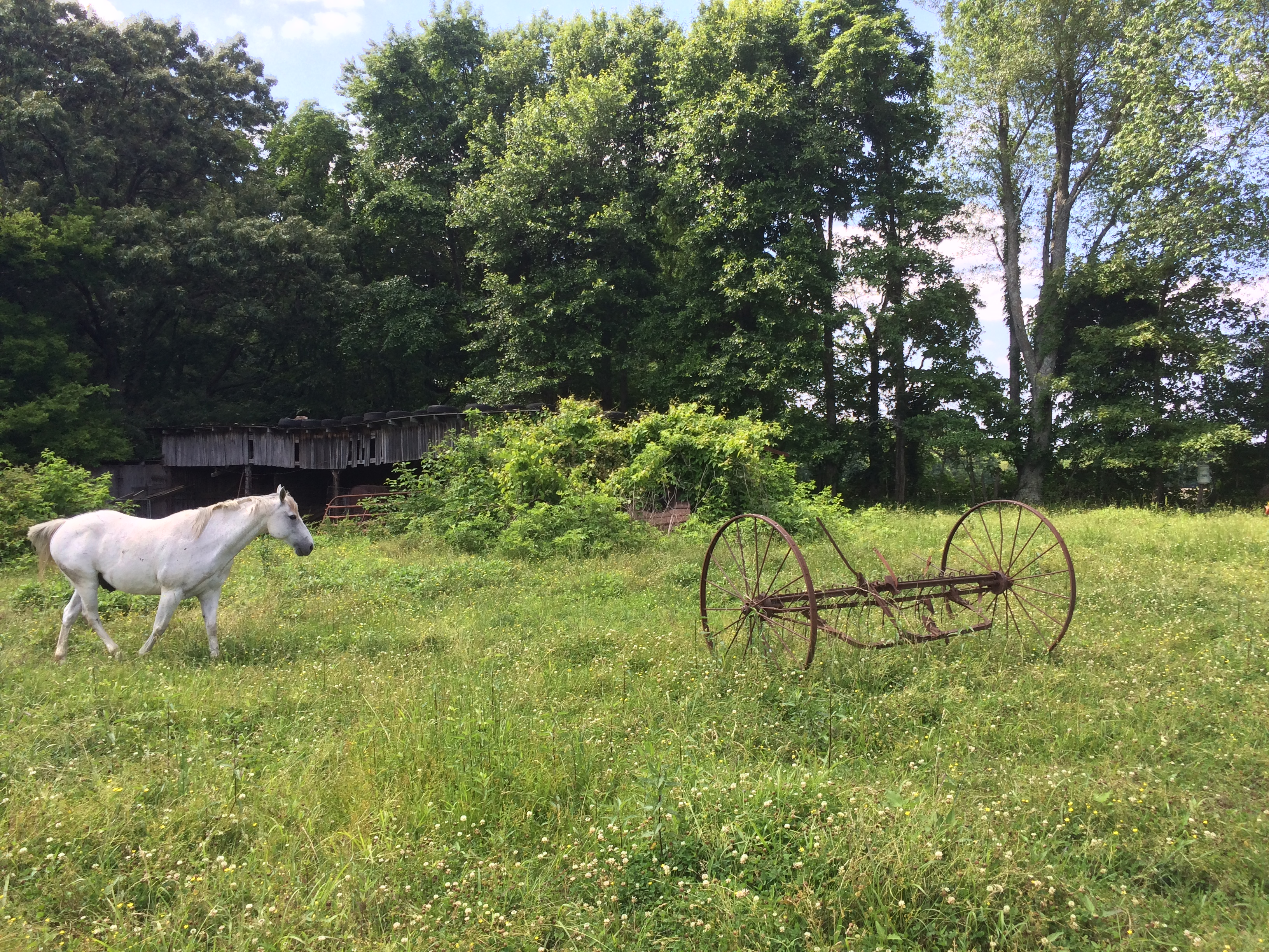 Description: White horse in unkempt pasture near Puryear, Henry County (Tennessee).